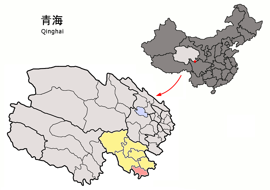 Location of Baima County (pink) and Golog Prefecture (yellow) within Qinghai province of China Map drawn in september 2007 using various sources, mainly : Qinghai province administrative regions GIS data: 1:1M, County level, 1990 Qinghai Counties map from "Plateau Perspectives" (the limits of some county-level subdivisions may not be accurate)